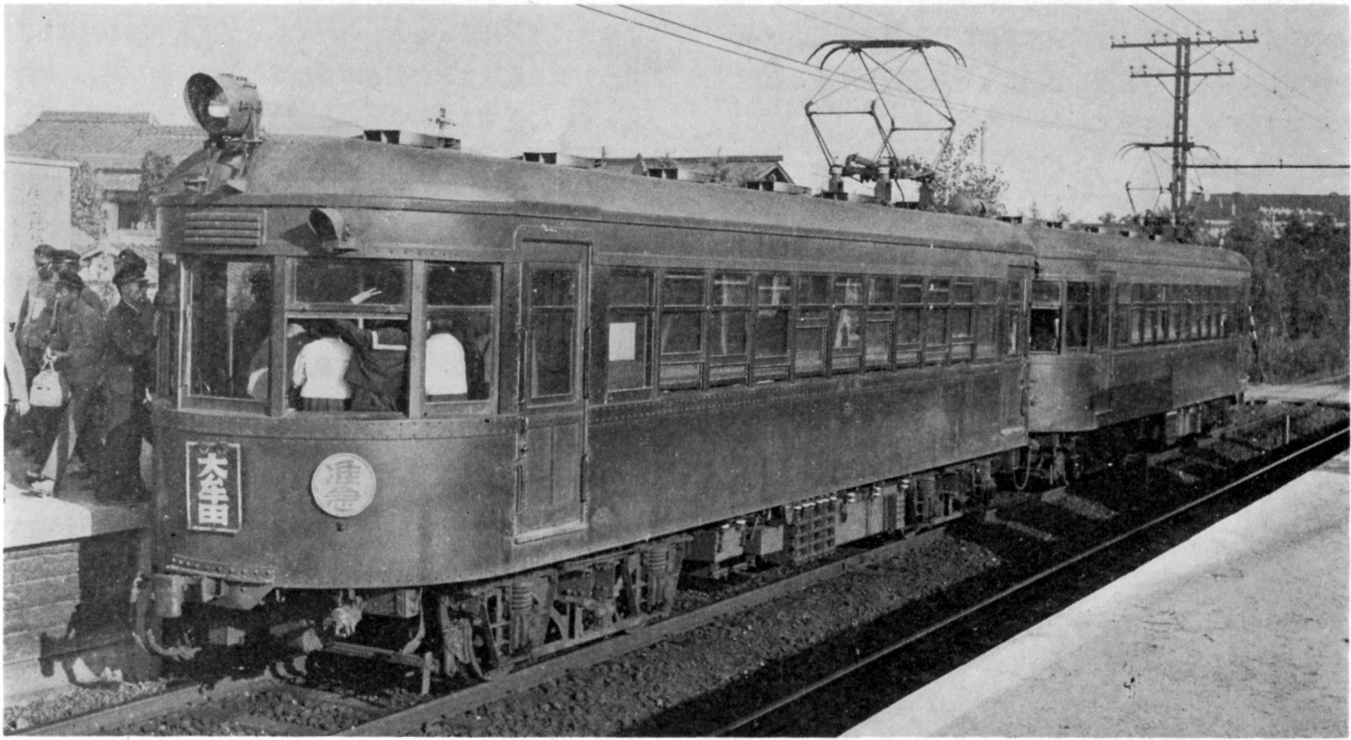 Kyushu Railway (now Nishi-Nippon Railway) 200 series EMU at Kasugabaru Station